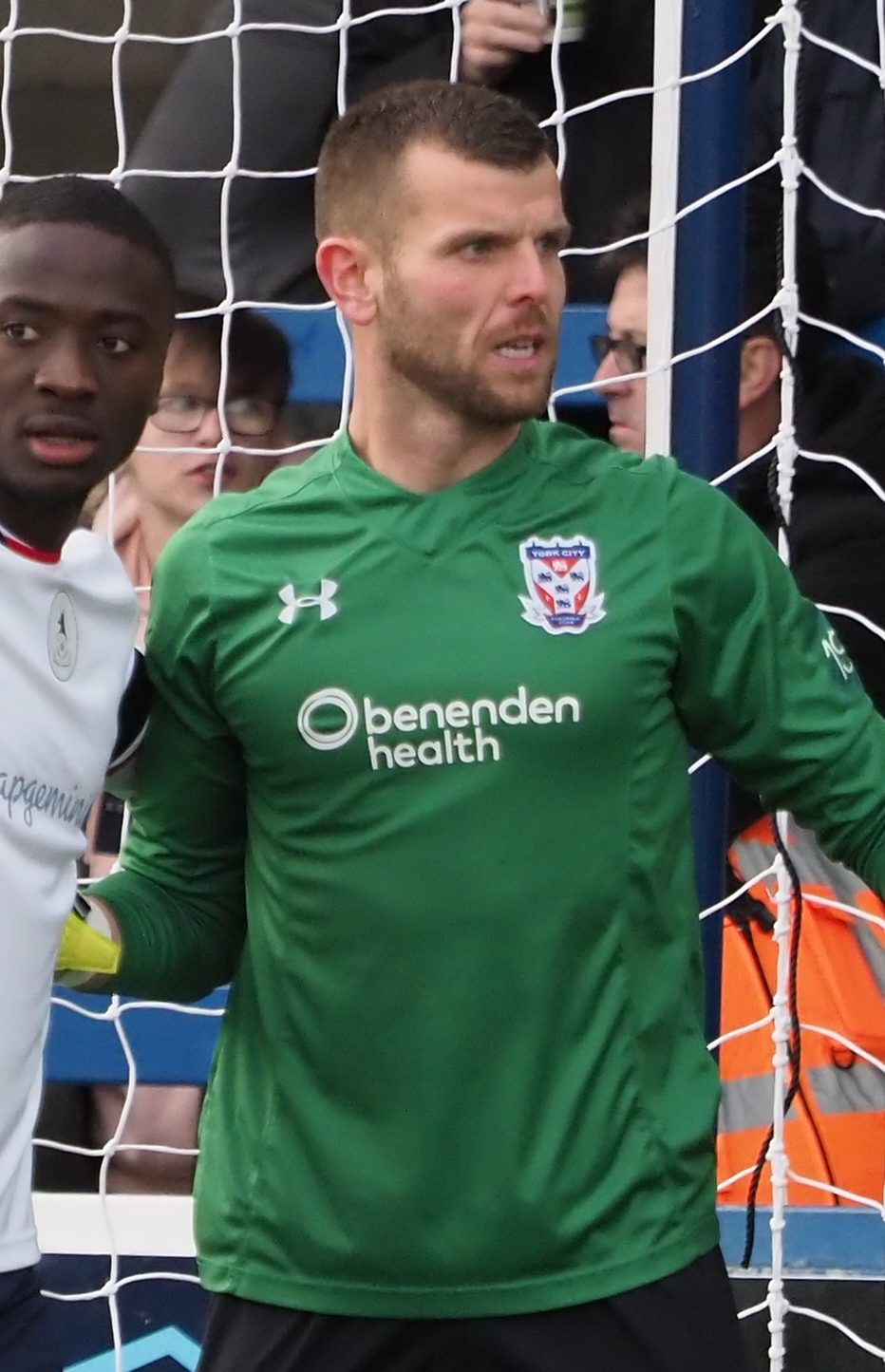 Adam Bartlett playing for York City against AFC Telford United at the New Bucks Head, Telford on 27 October 2018